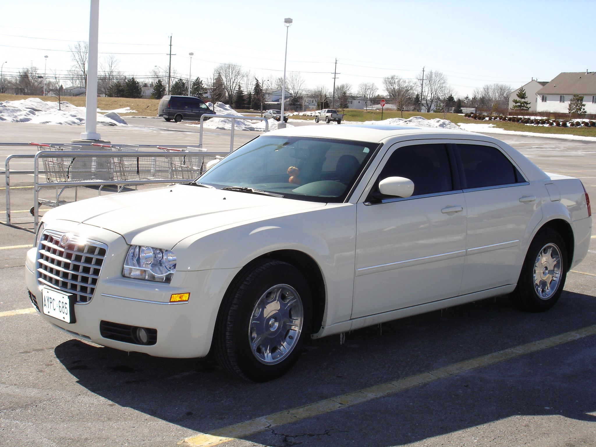 2006 Chrysler 300 Limited